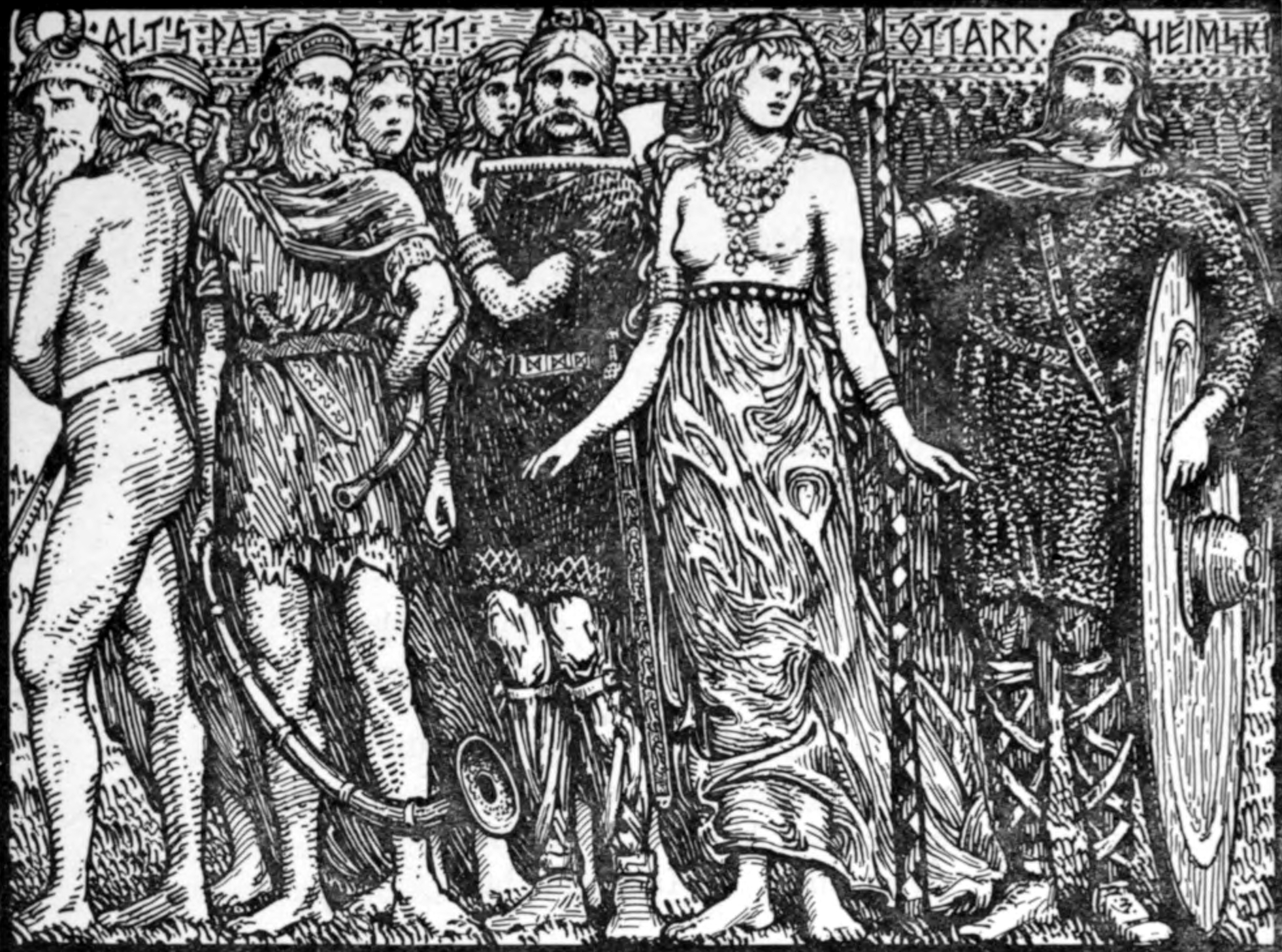 An illustration to Hyndluljóð. The list of illustrations in the front matter of the book gives this one the title The Ancestry of Ottar.